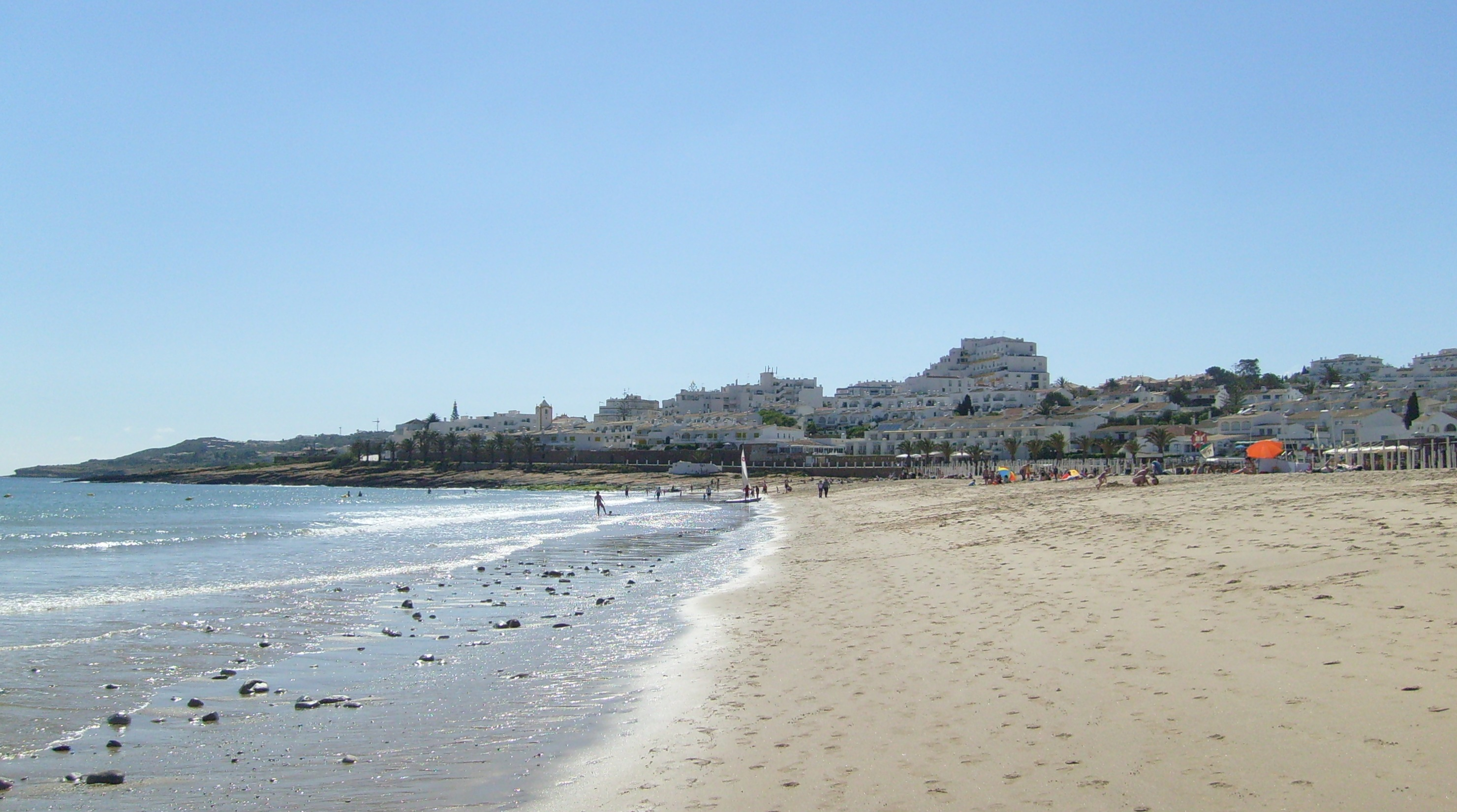 The village Luz, Portugal